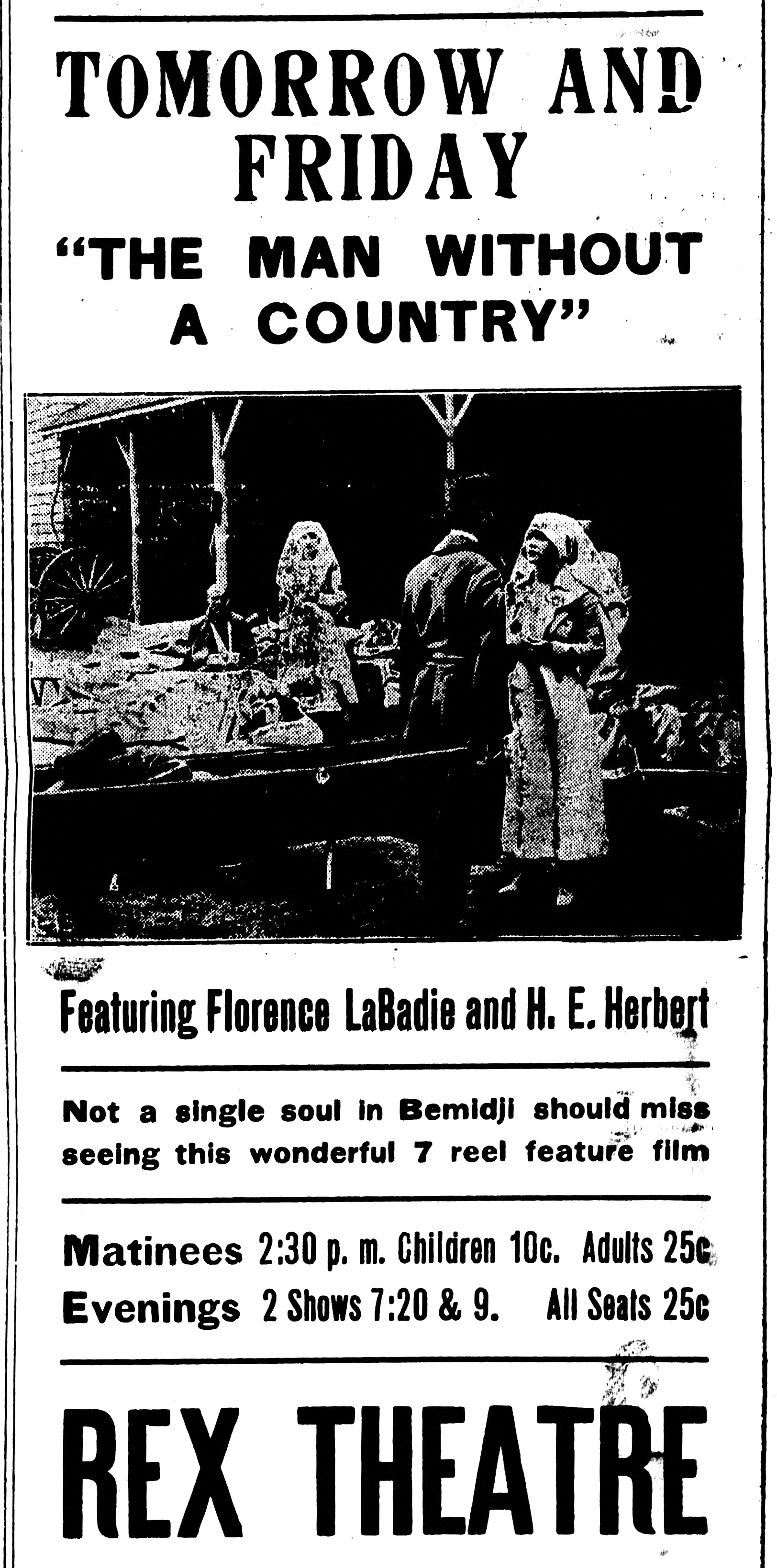 The Man Without a Country (1917) is an American silent film adaptation of Edward Everett Hale's story The Man Without a Country. This is an advertisement from a newspaper.